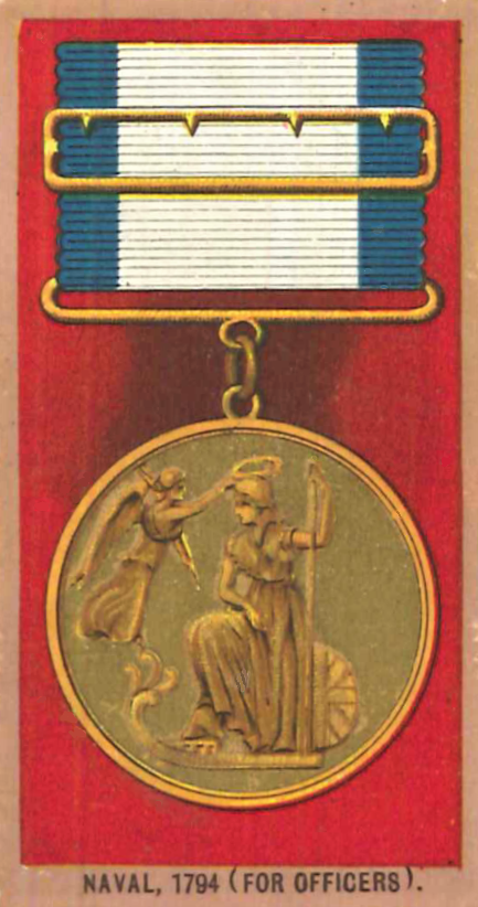 Cigarette Card showing Naval Gold Medal awarded in 1794 for 1974 UK naval victory. Smith's Harvest Moon Cigarettes. 1902